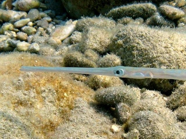 Head of Fistularia commersonii potographed in Karpathos, Greece.